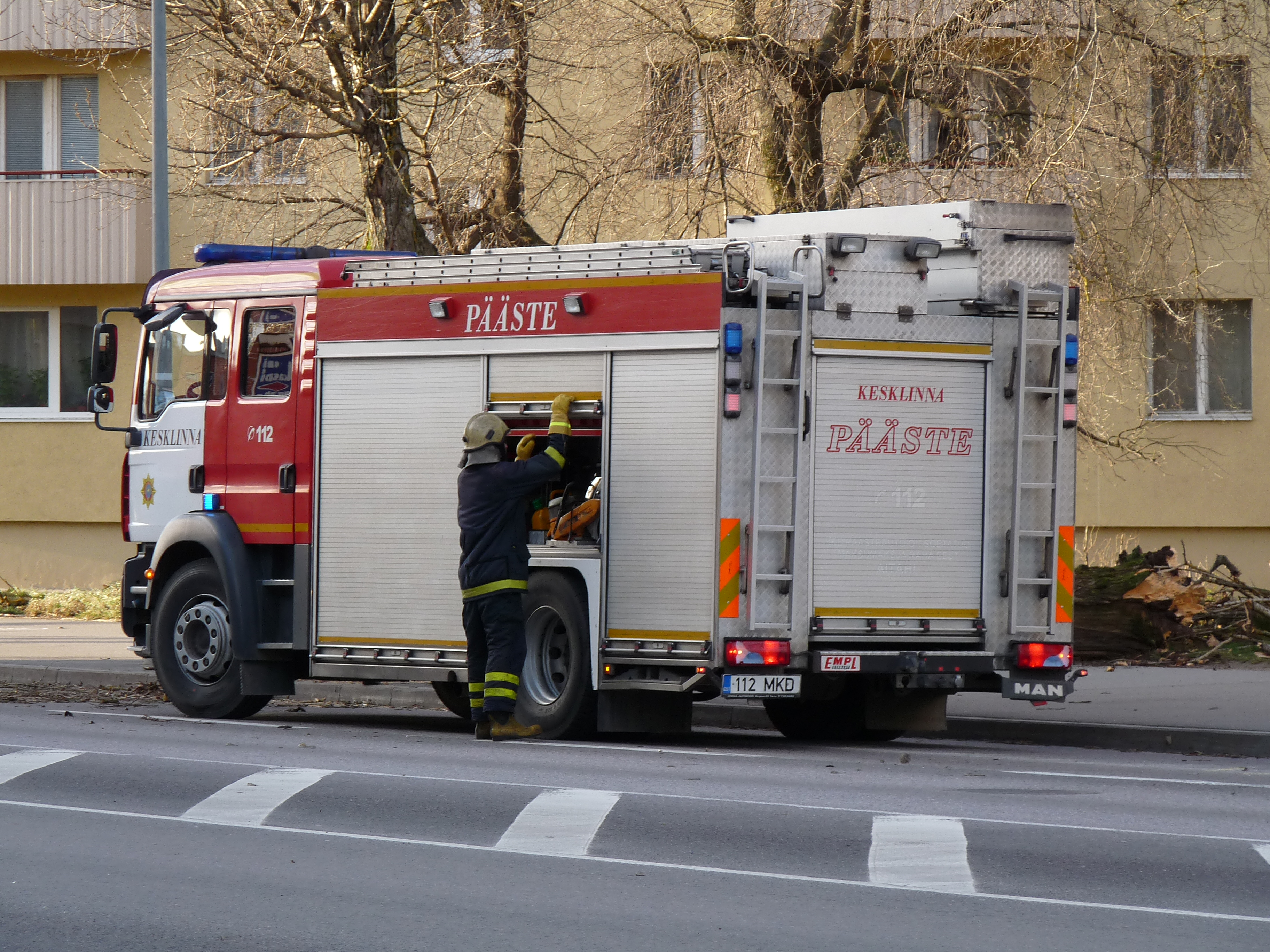 Firefighters in Pae street in Tallinn, Estonia.